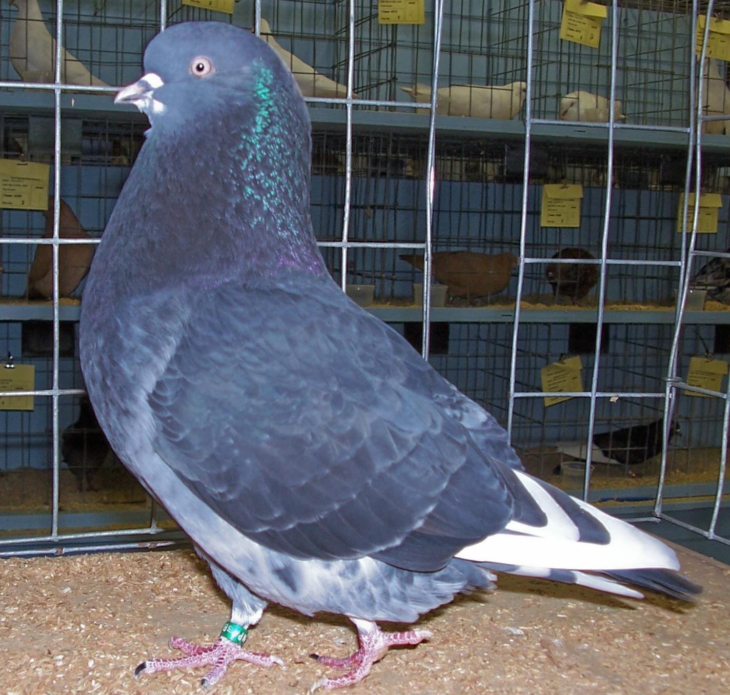 Champion Birmingham Roller at 2008 Queensland State Show (Australia). This bird is owned by Bruno Blaese, and it is a young cock bird.